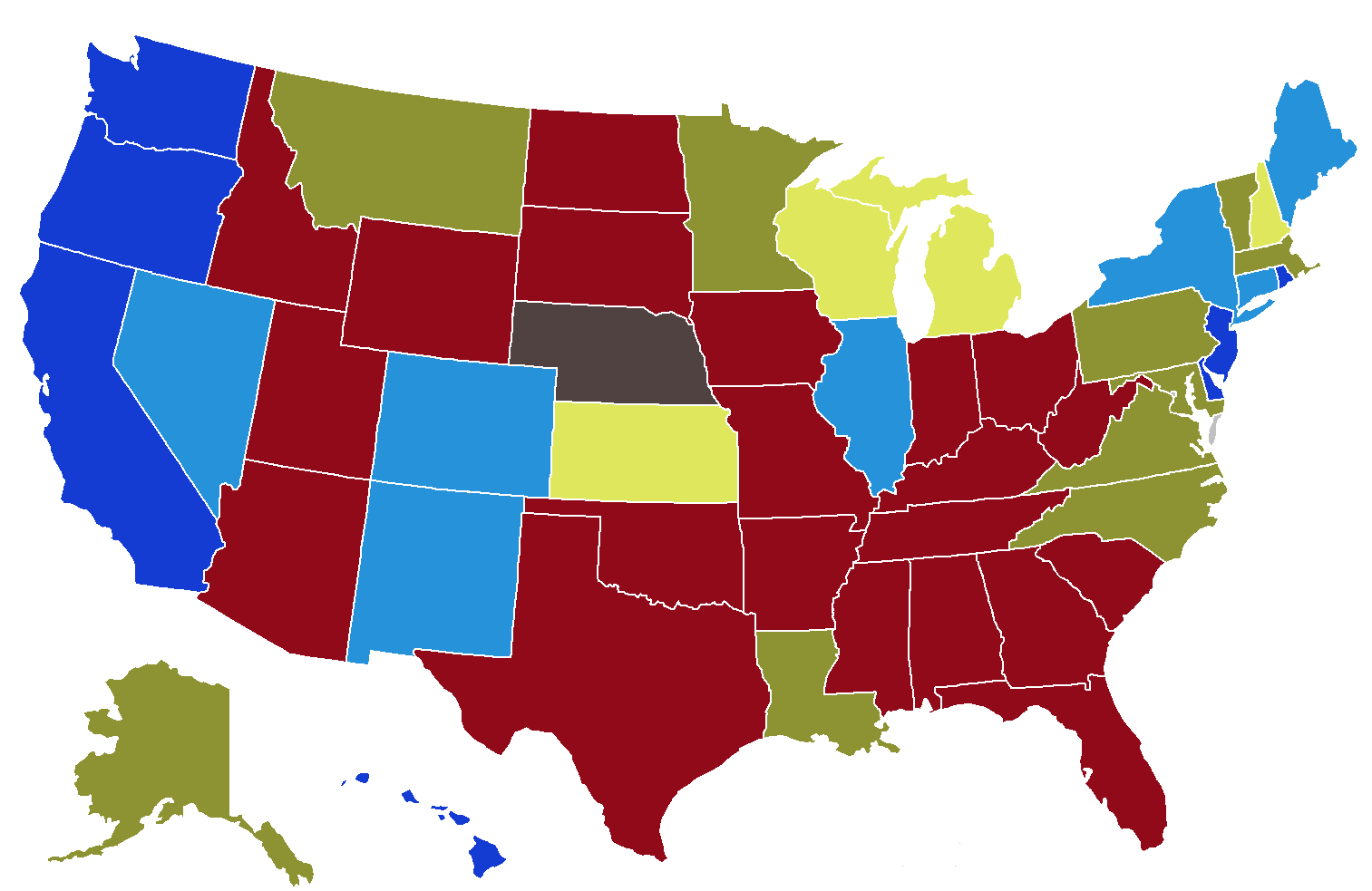 This map depicts the partisan control of state governments. In states where one party has a "trifecta," that party controls the state's upper house, lower house, and governorship. Unlike every other state, Nebraska has a non-partisan legislature, and thus it is listed separately. All other states have divided government. Democrats retained trifecta Democrats gained trifecta Republicans retained trifecta Republicans gained trifecta Divided government maintained Divided government established Officially non-partisan legislature Sources: Conference of State Legislatures 2017 State & Legislative Partisan Composition. Retrieved on January 11, 2018. 2018 State & Legislative Partisan Composition. NCSL. Retrieved on 7 November 2018. Alaska House, with new-look coalition, expects to open budget discussions Monday. Anchorage Daily News (February 16, 2019).